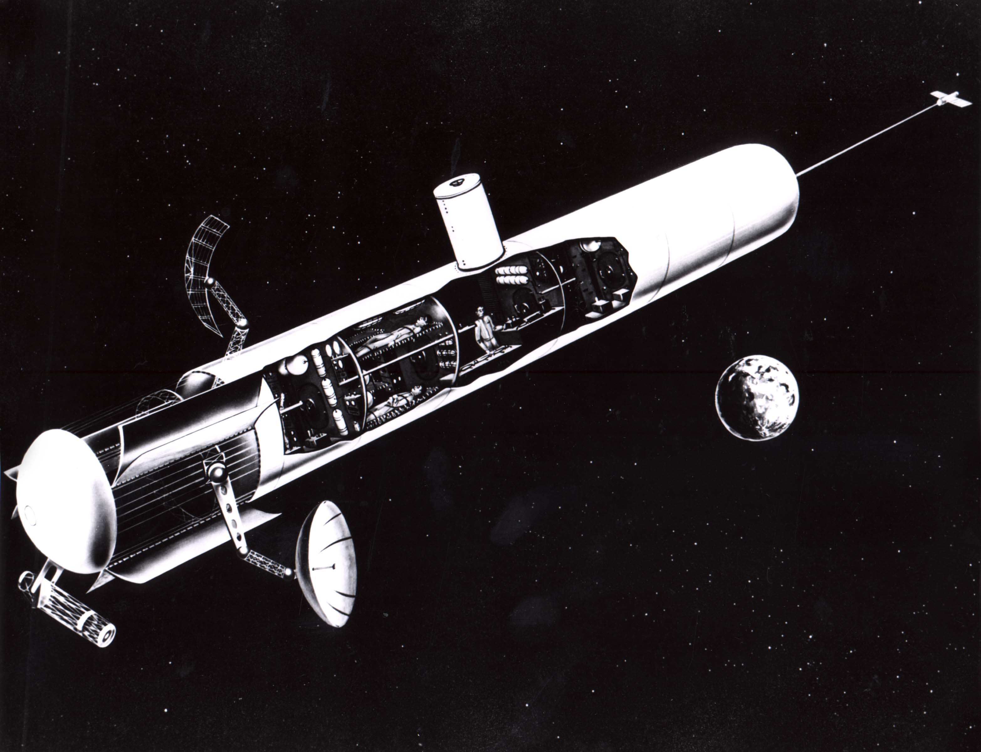 This is an early space station concept drawing. The station was designed as a laboratory to study the physical and behavioral effects of prolonged space flight, and could have possibly been crewed by 5 people. This particular image appeared in the 1959 Space: The New Frontier brochure produced by NASA.